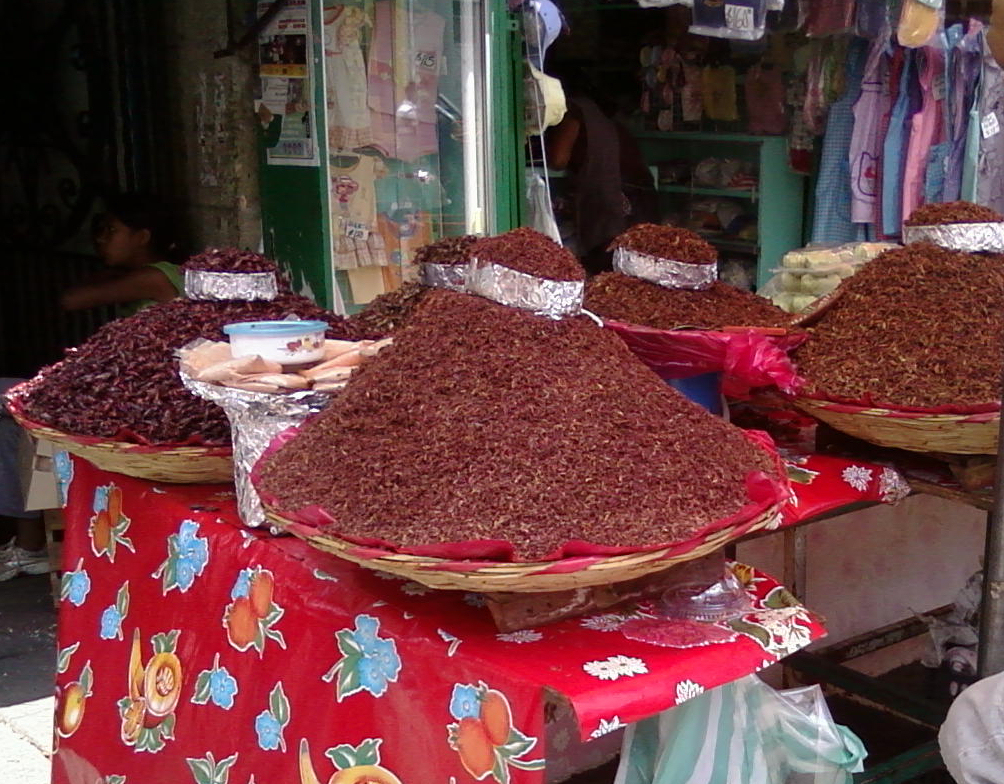 Chapulines for sale at the Benito Juarez Market in Oaxaca de Juarez, Oaxaca, Mexico.